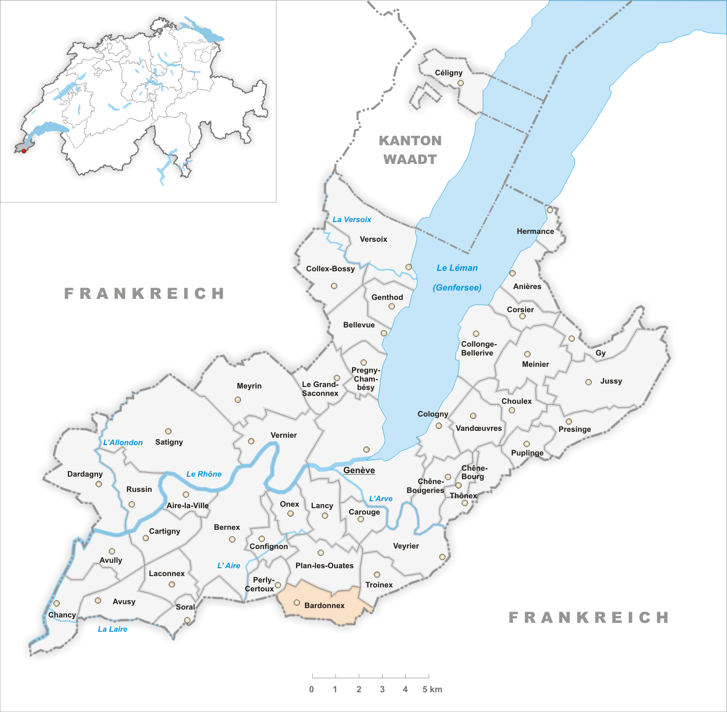 Municipality Bardonnex